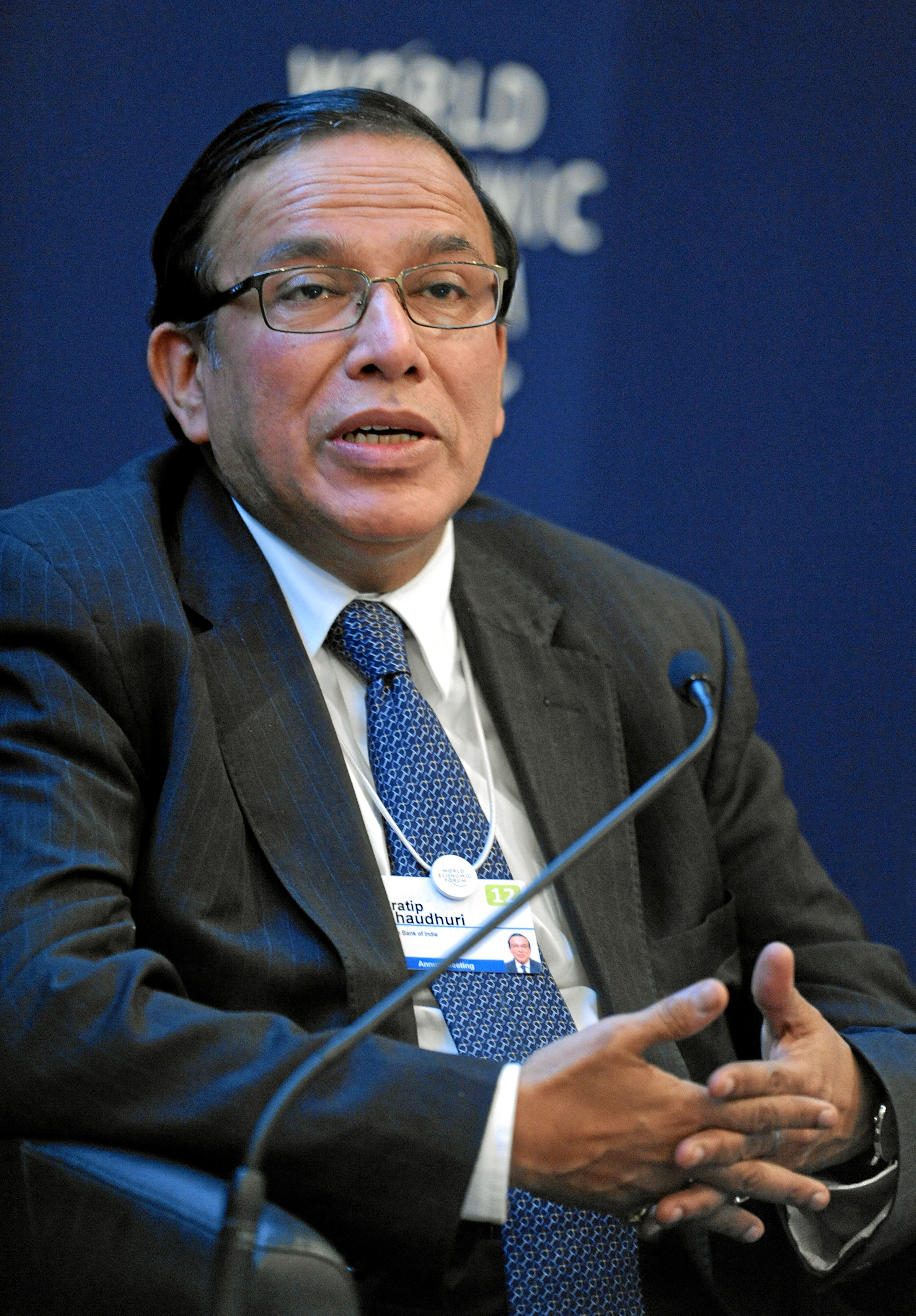 DAVOS/SWITZERLAND, 28JAN12 - Pratip Chaudhuri, Chairman, State Bank of India, India, is captured during the session 'Beyond Basel: Financial Institution Regulation' at the Annual Meeting 2012 of the World Economic Forum at the congress center in Davos, Switzerland, January 28, 2012. Copyright by World Economic Forum by Michael Wuertenberg